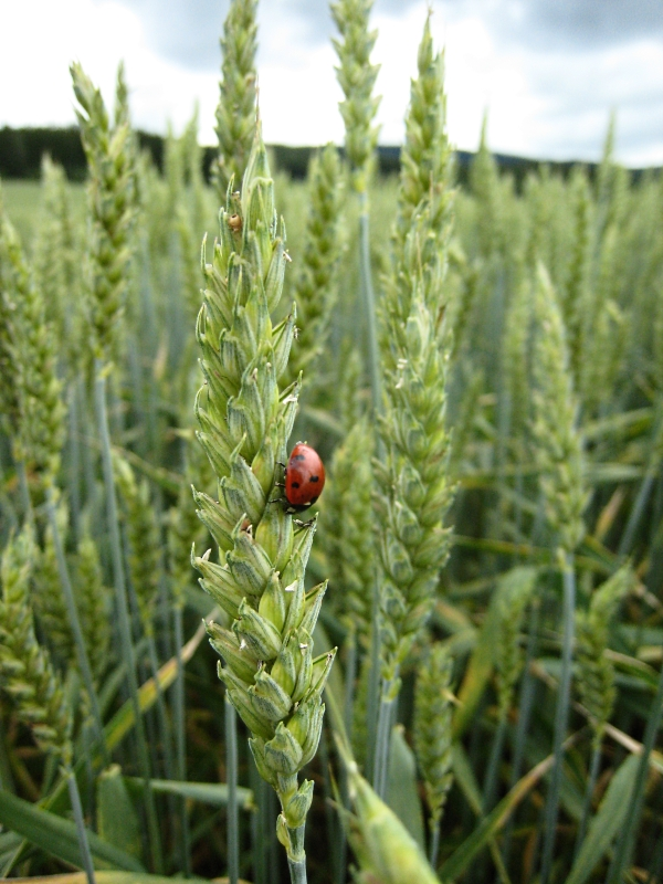 organic wheat ladybug Coccinella septempunctata